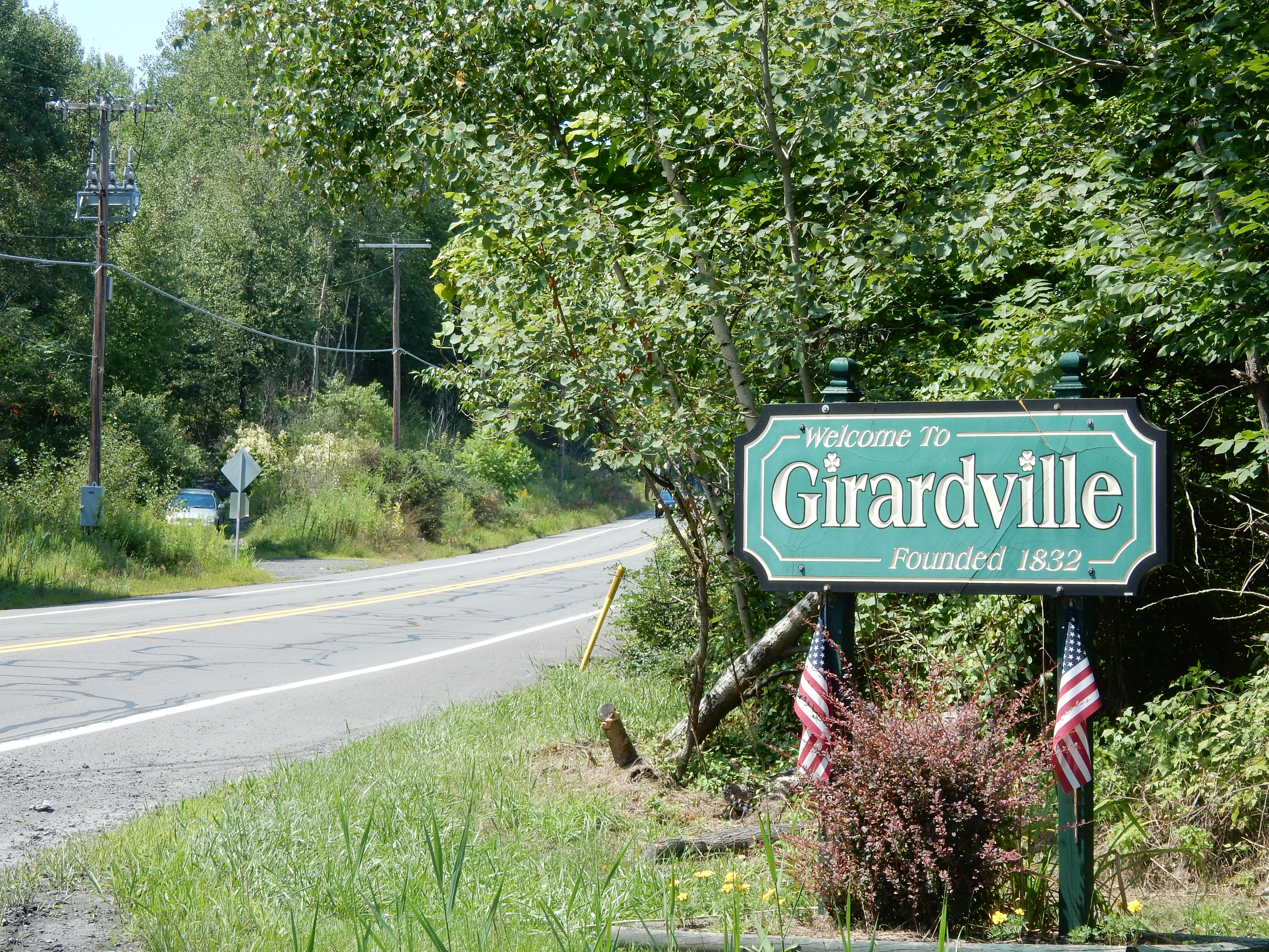 Western entrance to Girardville borough by Powder Mill Rd., Schuylkill County, Pennsylvania.